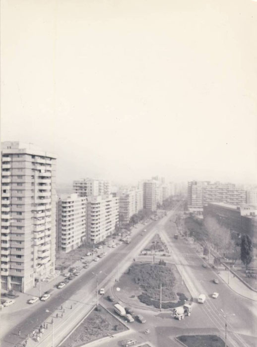 Pantelimon neighbourhood of Bucharest, Romania